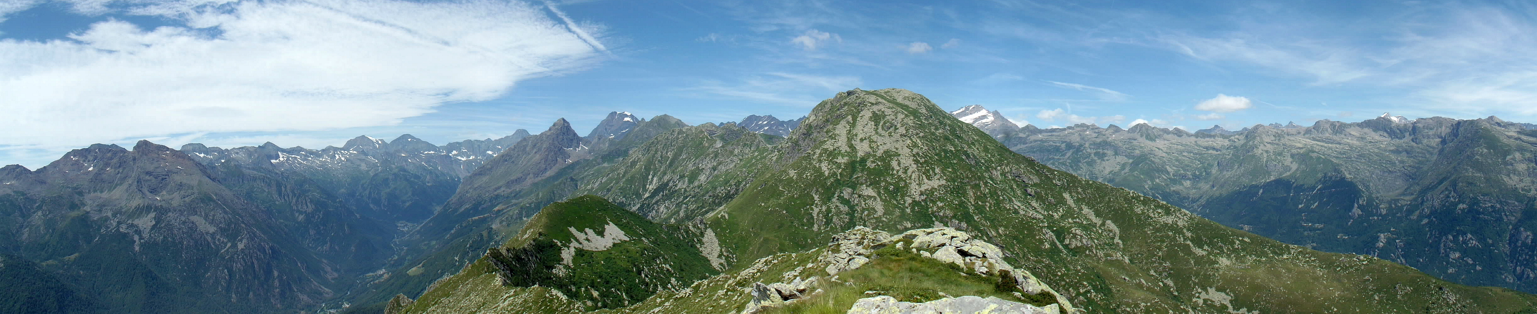 Panoramics from monte Plu (Graian ALps, Italy)